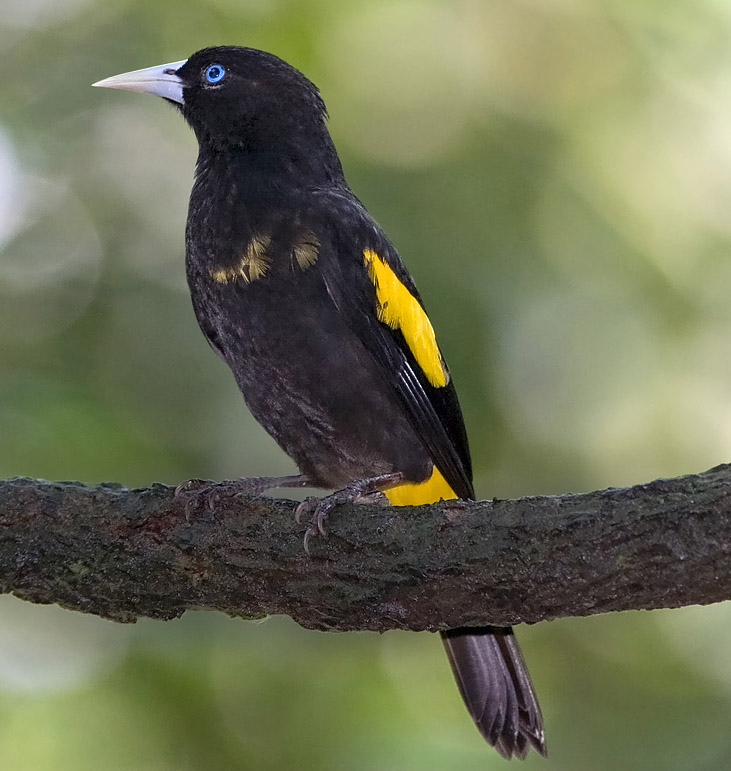 Cacicus cela - Yellow-rumped Cacique